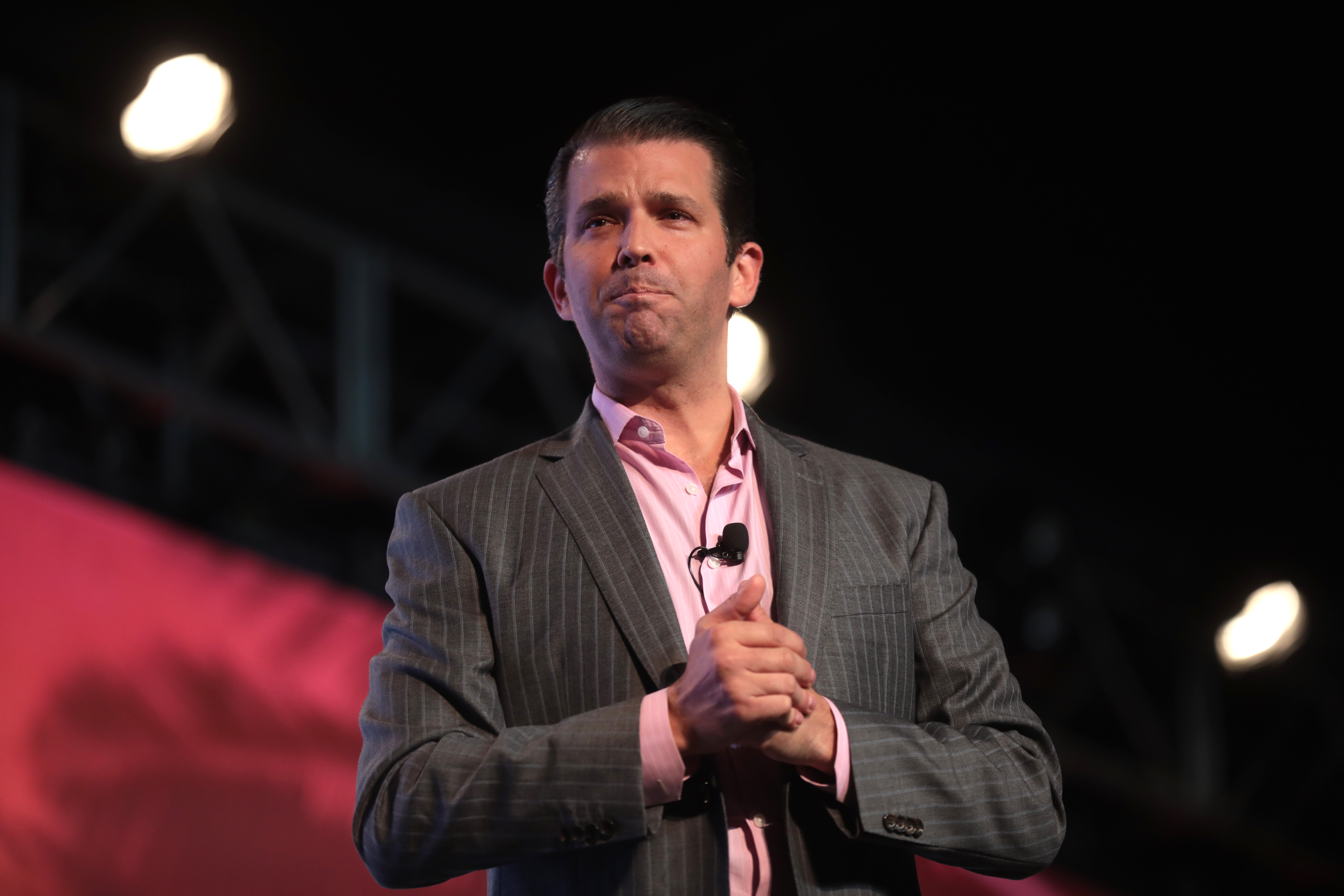 Donald Trump, Jr. speaking with attendees at the 2018 Student Action Summit hosted by Turning Point USA at the Palm Beach County Convention Center in West Palm Beach, Florida.